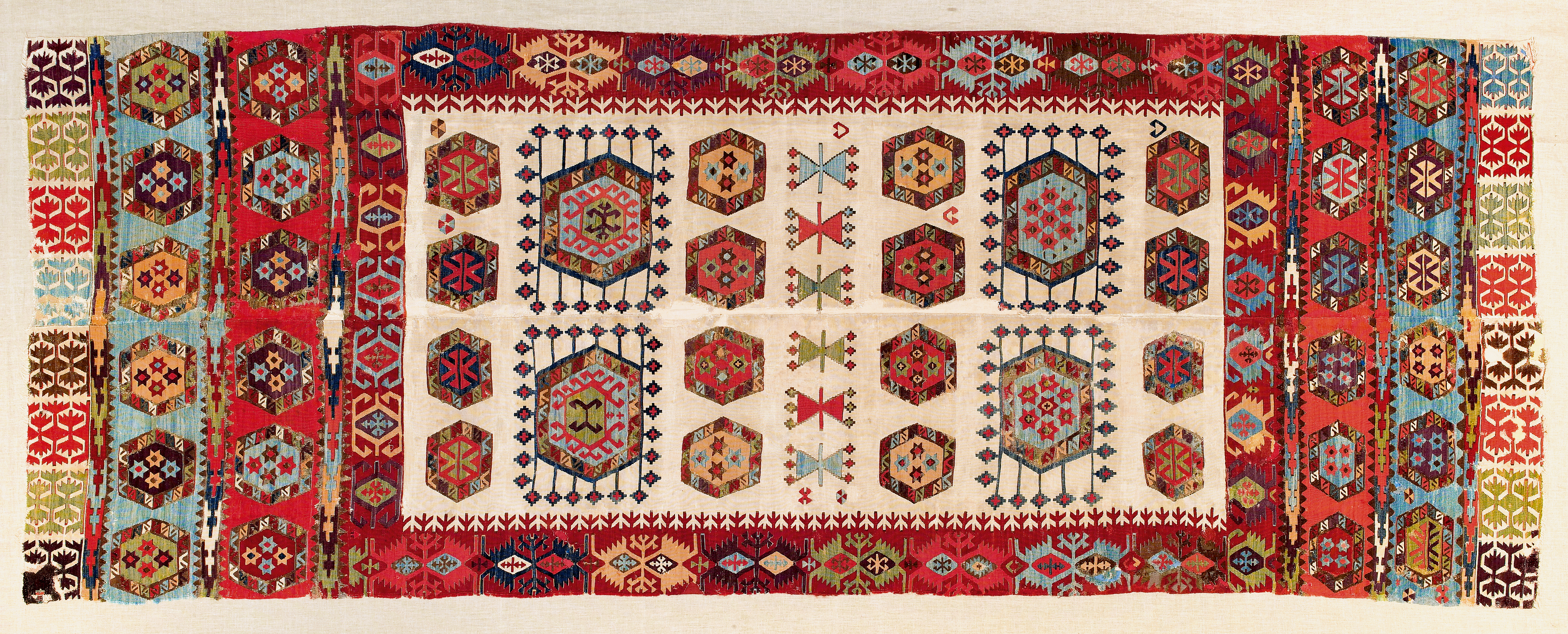 VOK Collection, Anatolia 67 In this two-panel Aksaray kilim, the extremely fine weave has resulted in a precise drawing. Any connoisseur of Anatolian weavings will be enchanted by its magnificent colours; it is considered the most beautiful surviving example. Four large hexagons oppose each other in the white field, their sides decorated with horizontal arms and small stepped diamonds. Four rows of smaller octagons are interspersed between them. A horizontal row of six amulets placed at the exact centre of the field constitutes the pivotal point of the precisely drawn, mirror-image composition. A red-ground border of double serrated diamonds surrounds the entire field, clearly separating this section from the two unusually long elems whose motifs relate to the field and border designs. – The kilim was probably made by a group of settled Hotamis Turkmen in the Aksaray region. Hirsch writes that it was used for a funeral and later donated to the local mosque. – Signs of age and wear, small holes, slightly reduced ends. Backed with canvas. Literature: ESKENAZI, JOHNNY (publ.), Kilim anatolici. Milan 1984, pl. 11 Published: VOK, IGNAZIO, Vok Collection. Anatolia. Kilims and other Flatweaves from Anatolia. (Text by Udo Hirsch) Munich 1997, no. 67 Origin southern Central Anatolia Dimensions 185 x 100 cm Age 18th century Result EUR 11,590.00